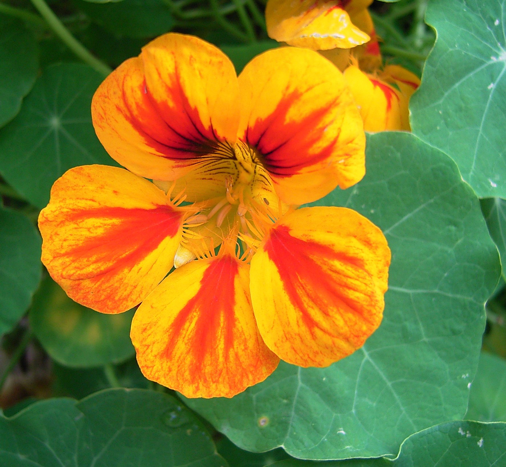 Tropaeolum majus, flowering Source: own work Author: Density Date: October 2004 Permission: CC-BY 2.5 Other versions of this file